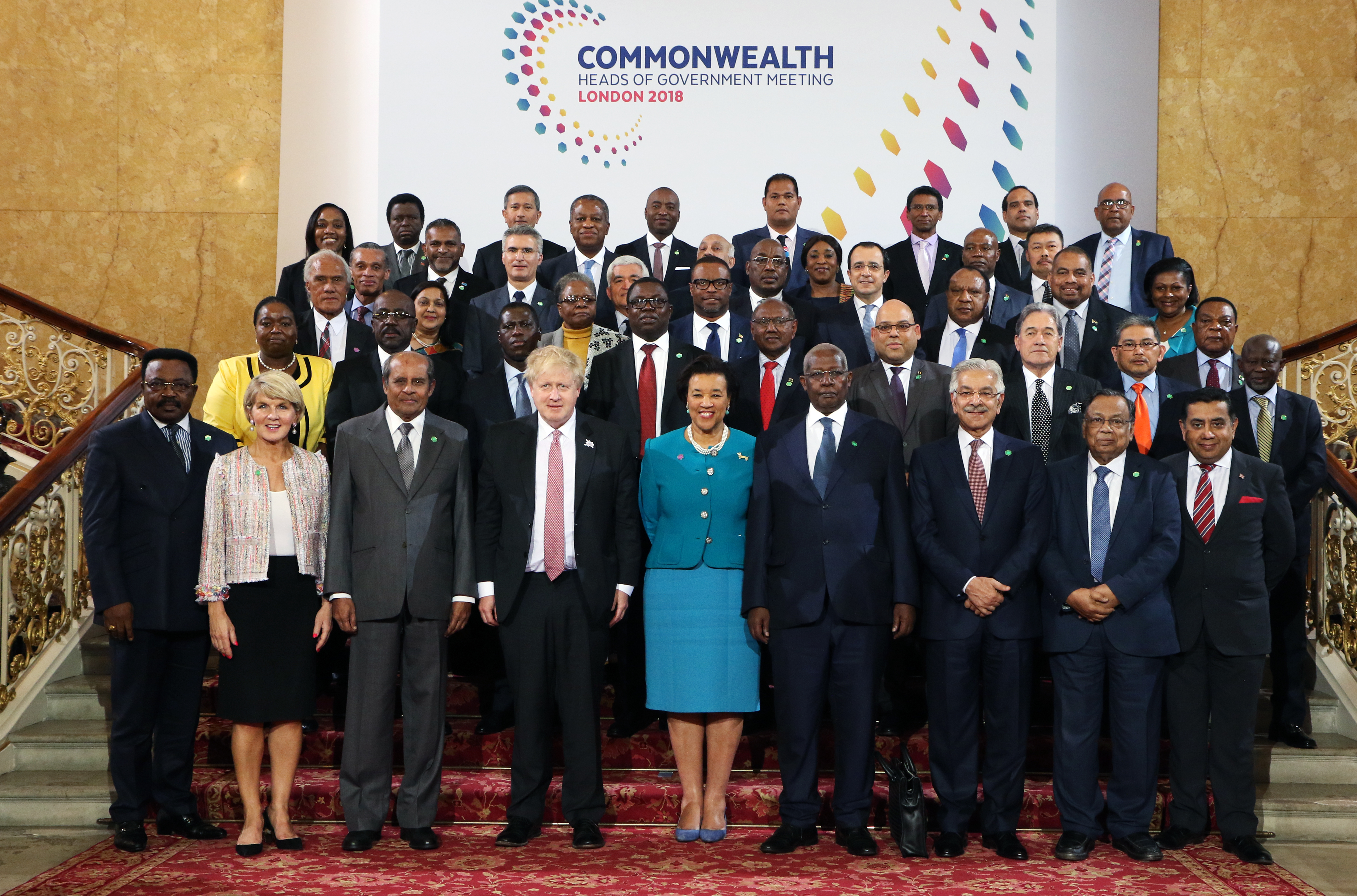 Group photo from the Commonwealth Foreign Ministers meeting in London, 18 April 2018.